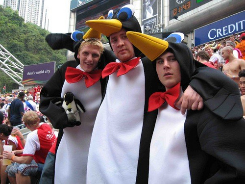 A group of British fans at the Rugby Sevens in Hong Kong. The south side of the stadium is known for the enthusiasm of its fans.